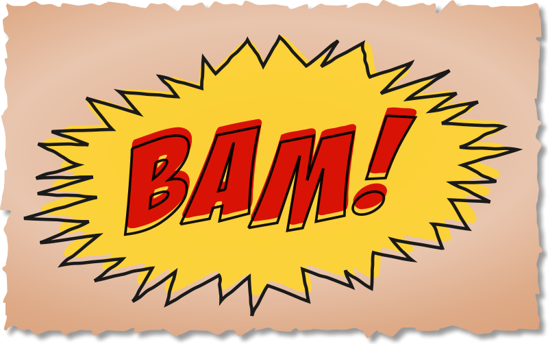 1940's style comic book sound effect with out of register colors on browned paper.